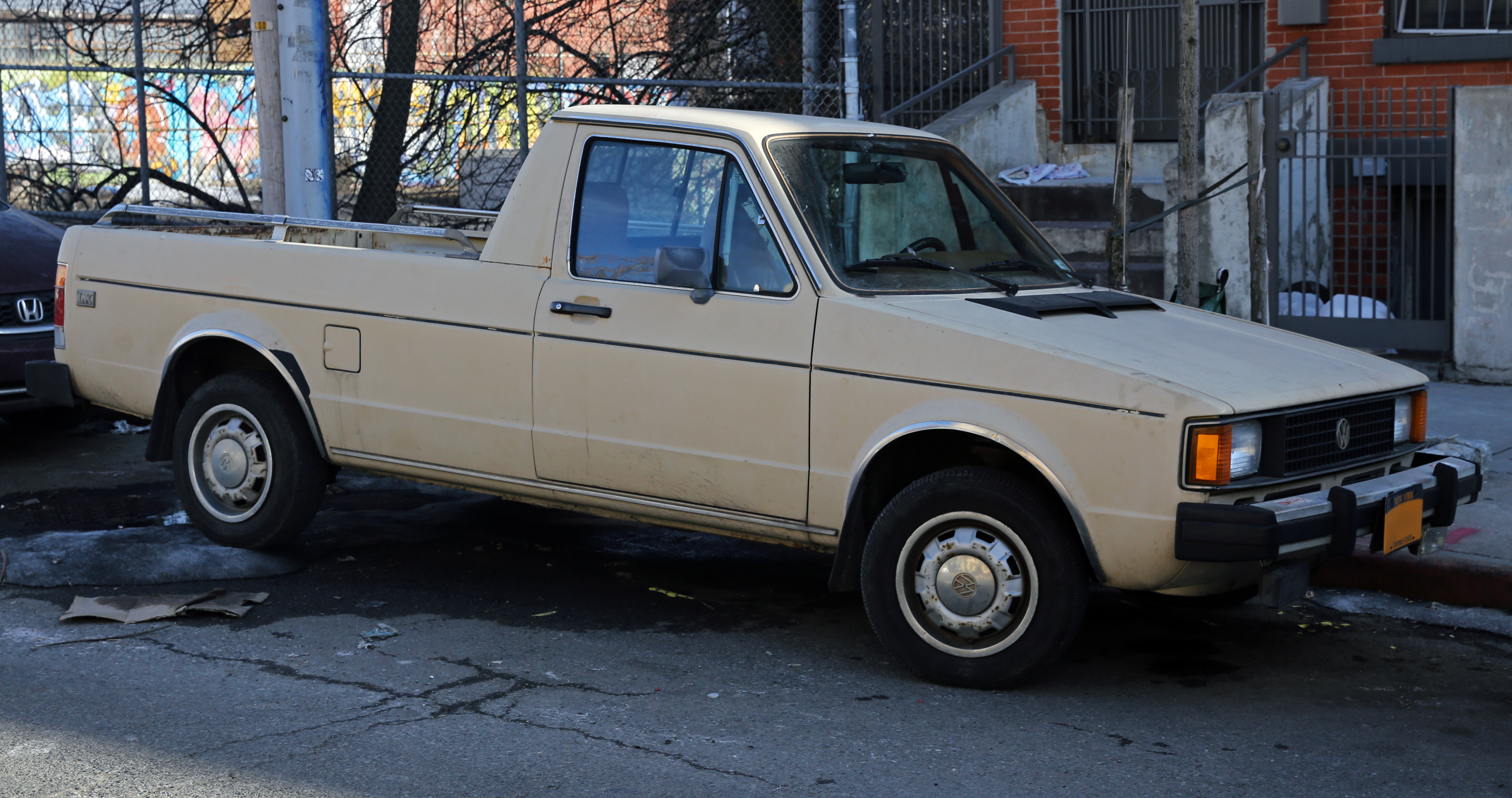 A 1981 Volkswagen Rabbit Pickup Diesel LX, built in Westmoreland, PA.